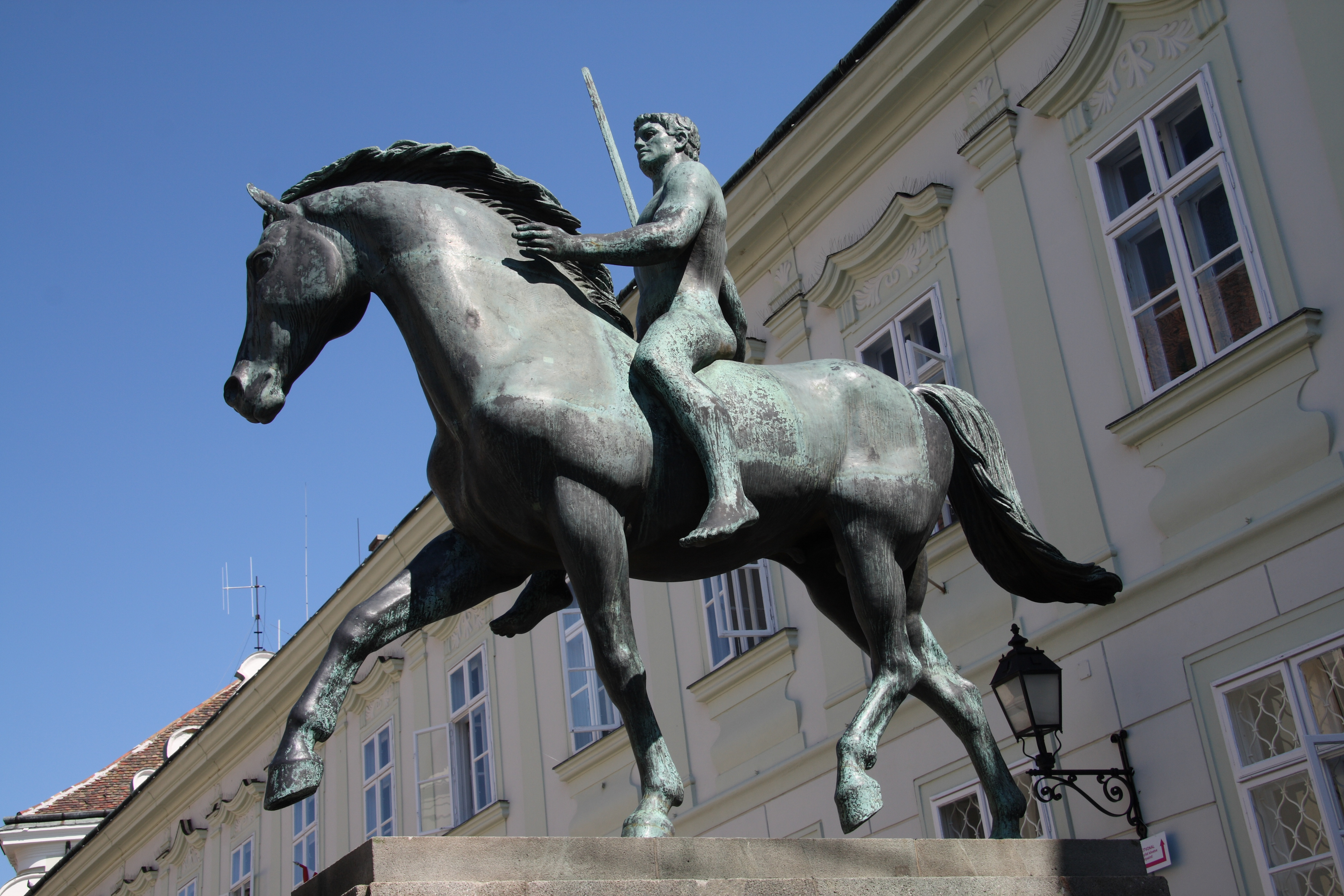 Memorial of 10th Hussar Regiment by Pál Pátzay in Székesfehérvár, erected in December 1939 to commemorate one of the blodiest battles of World War I at Limanowa-Lapanow in December 1914